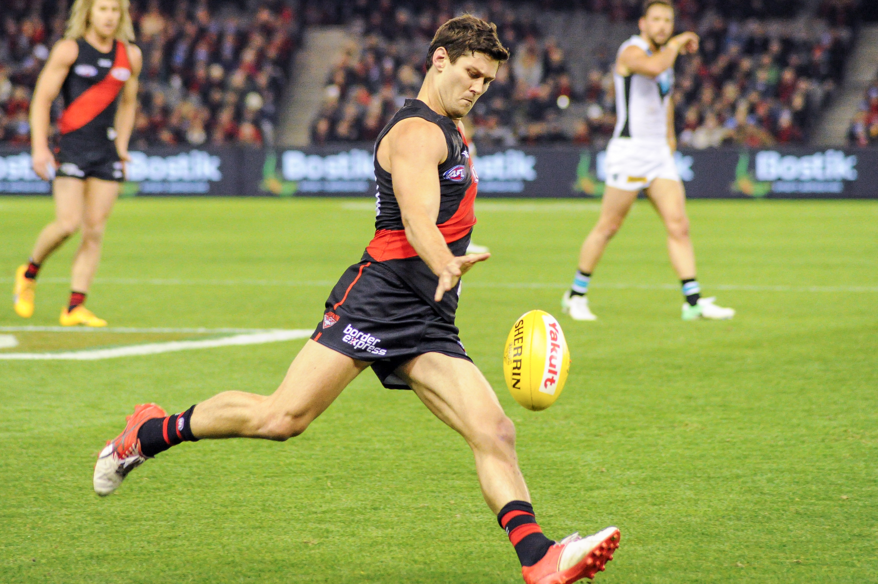 Ben Howlett kicking during the AFL round twelve match between Essendon and Port Adelaide on 10 June 2017 at Etihad Stadium in Melbourne, Victoria.